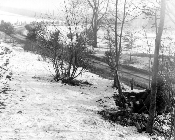 Battle of the bulge - The members of the 101st Airborne Division, right, are on guard for enemy tanks, on the road leading to Bastogne, Belgium. They are armed with bazookas. 23 Dec 1944